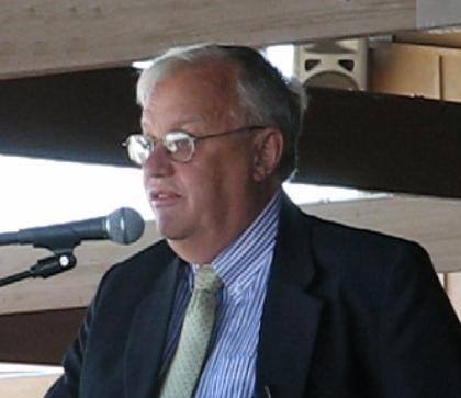 Tweed Roosevelt, great-grandson of Theodore Roosevelt, 26th US President